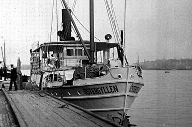 S/S Östergyllen the former Per Brahe, after the salvage in 1922 and restauration in 1924